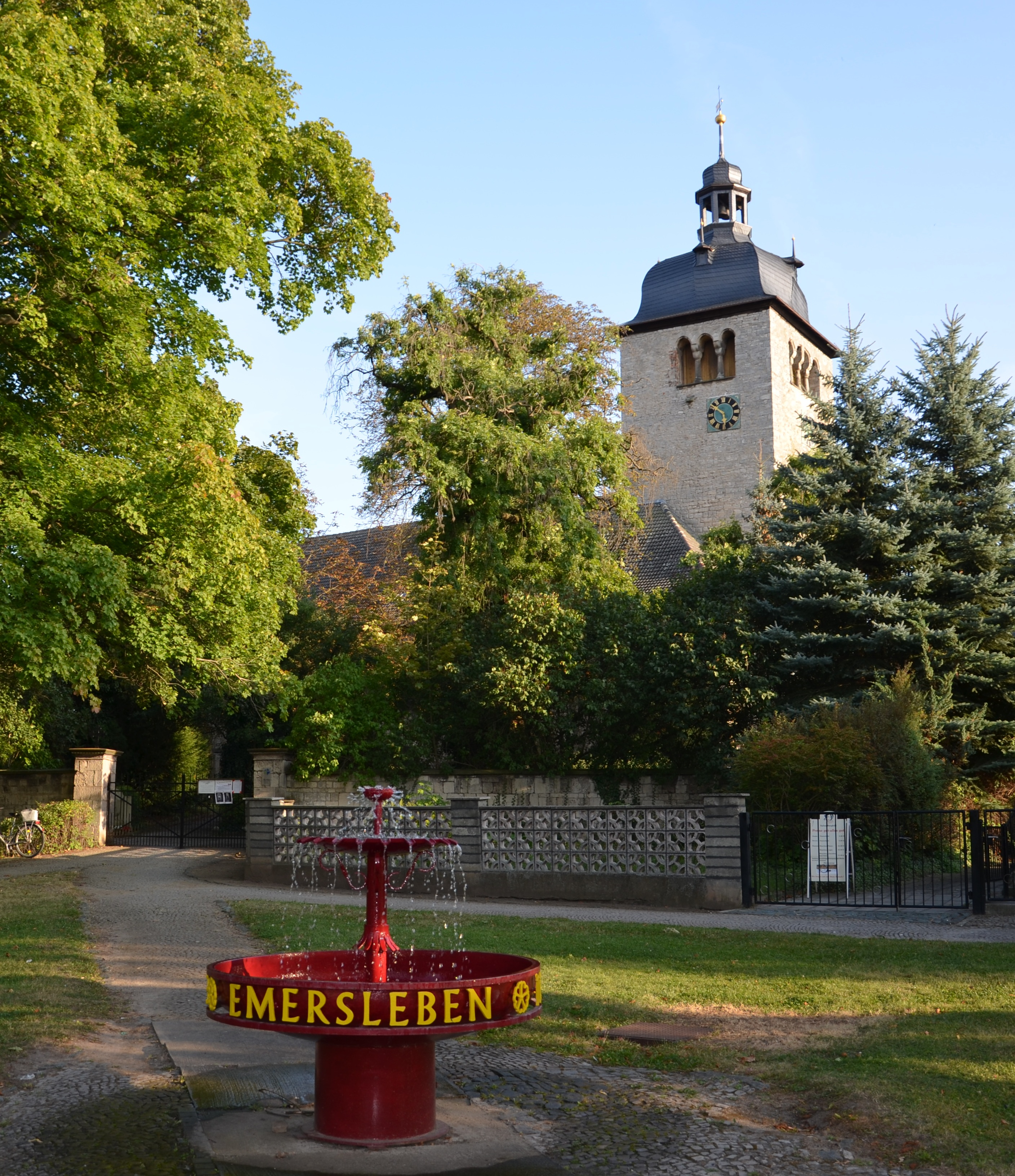 Church in Emersleben, Germany